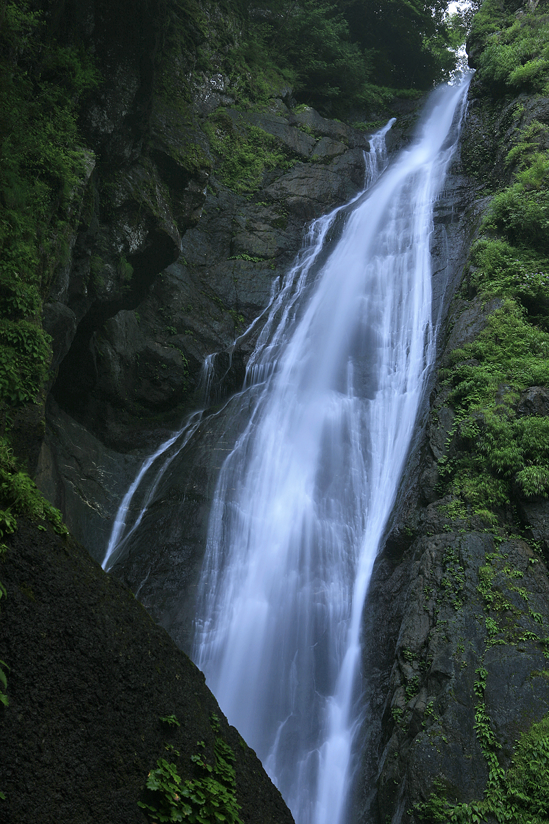 Abe Great Falls (Abe-no-Otaki) in Aoi-ku, Shizuoka, Shizuoka Prefecture, Japan.